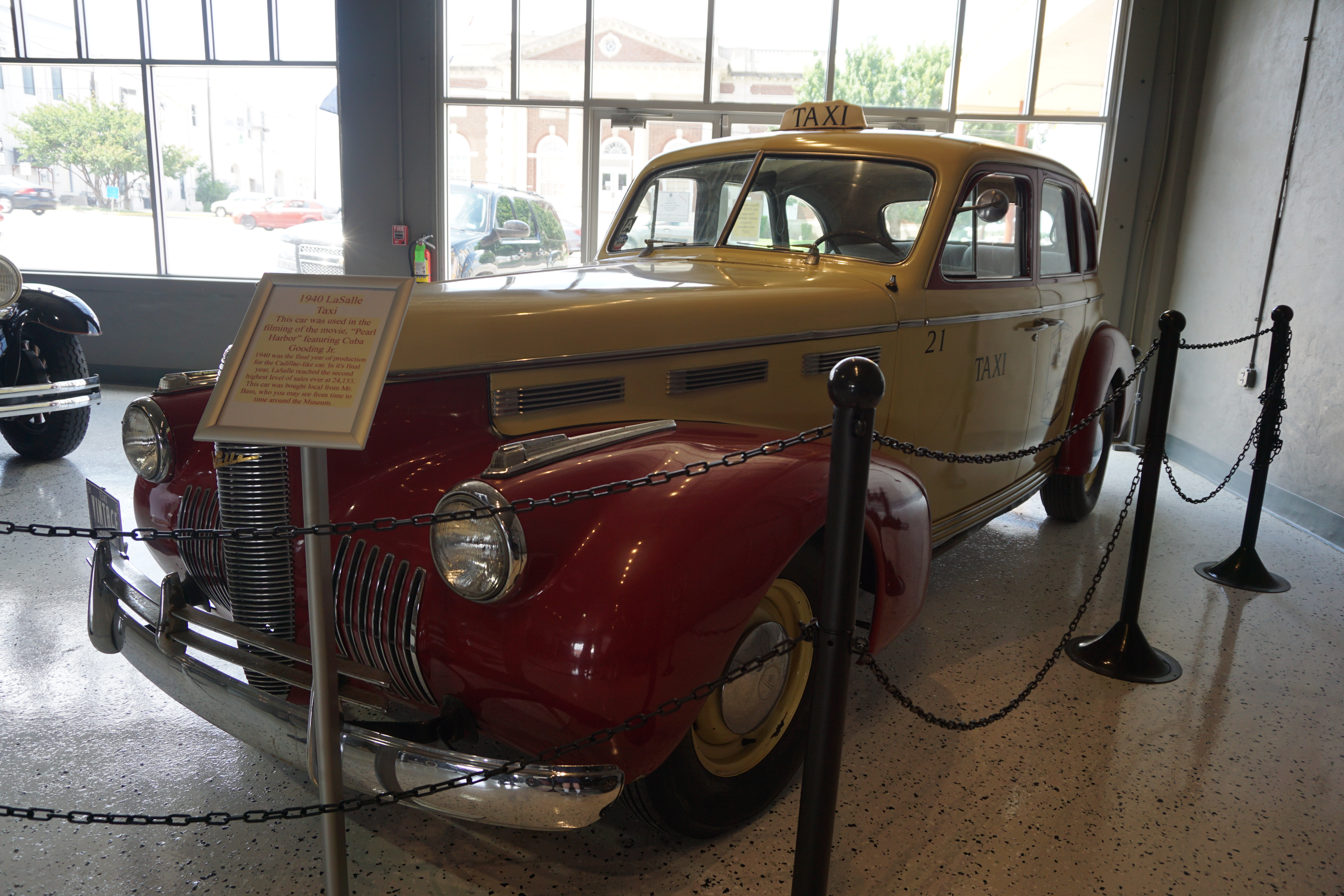 A 1940 LaSalle Series 50 taxi featured in the film Pearl Harbor at the Vintage Car Museum & Event Center in Weatherford, Texas (United States).